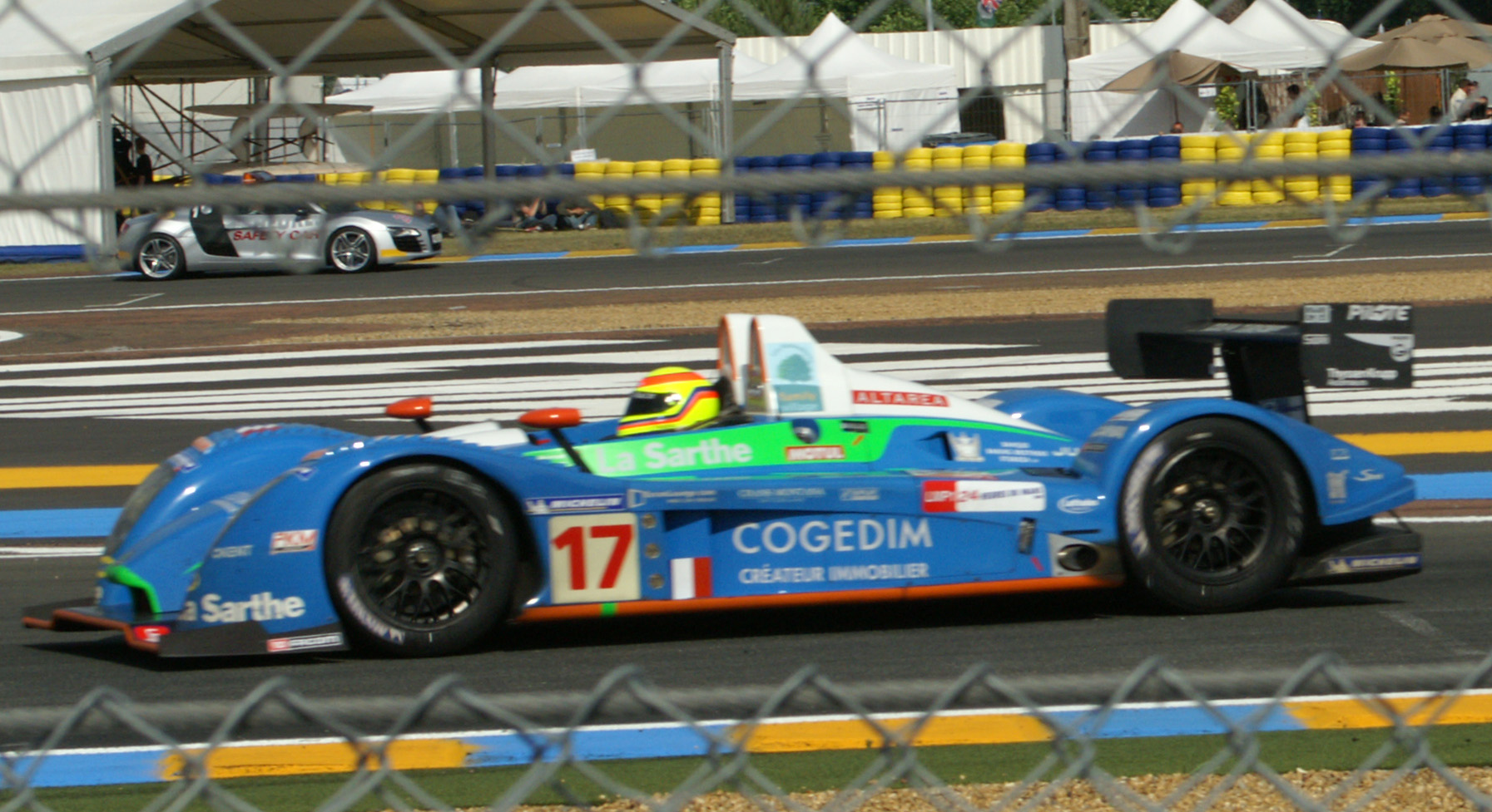 Christophe Tinseau driving for Pescarolo Sport at the 2008 Le Mans 24 Hours